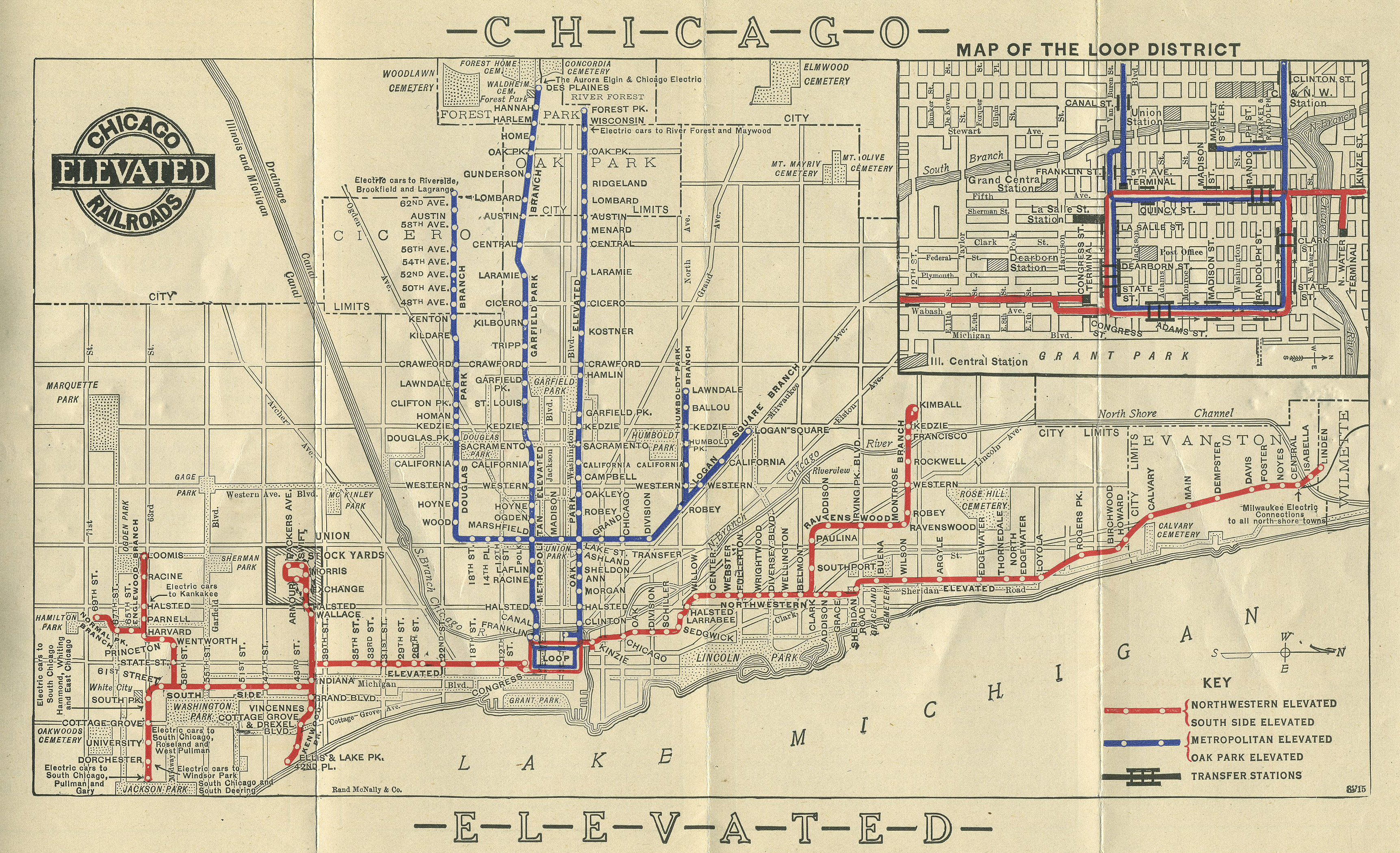 1915 map of the Chicago 'L'.